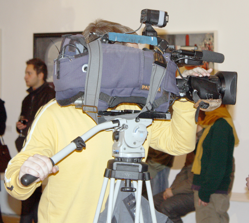 BNT World cameraman